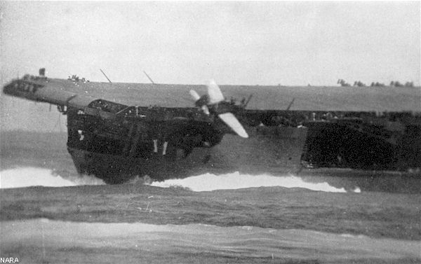 A parked Douglas SBD-3 Dauntless topples off of the flight deck of the U.S. Navy aircraft carrier USS Enterprise (CV-6) as she heels sharply over after being hit by a bomb during the Battle of the Santa Cruz Islands on 26 October 1942.